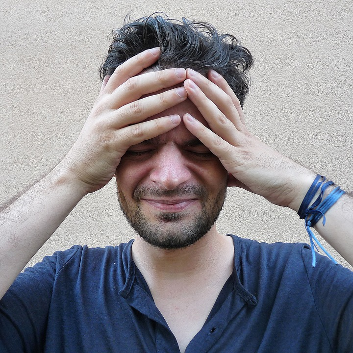 Stressed person